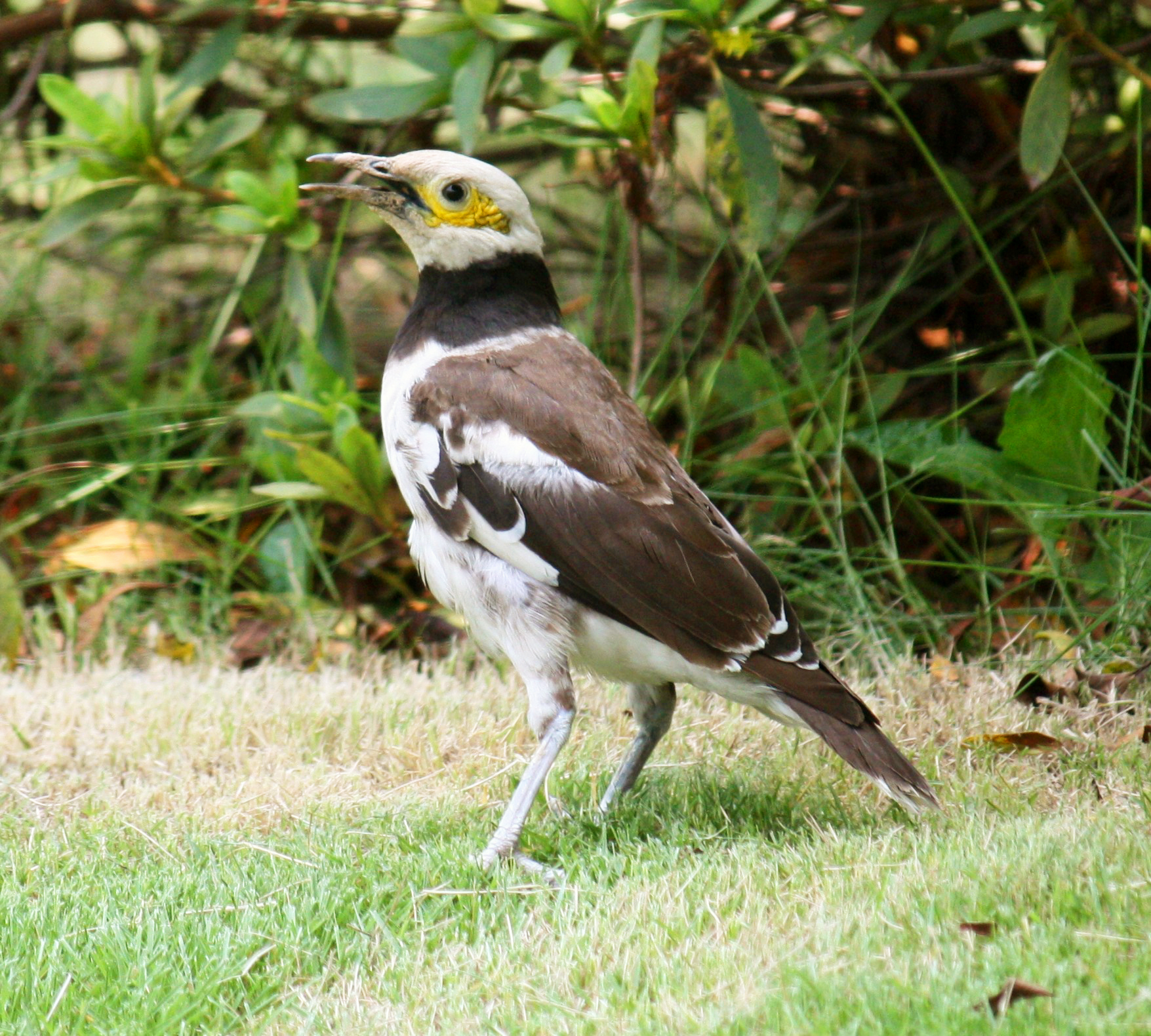 A bird in Shenzhen, China